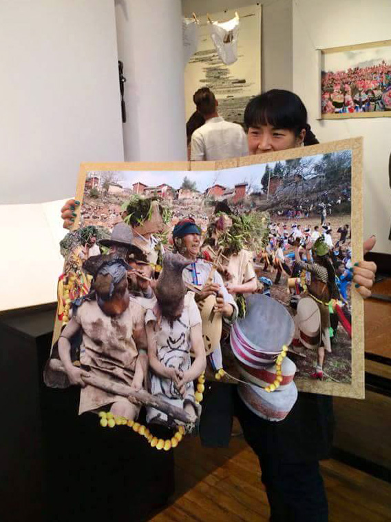 Colette Fu presenting Axi Fire Festival at the Center for Book Arts